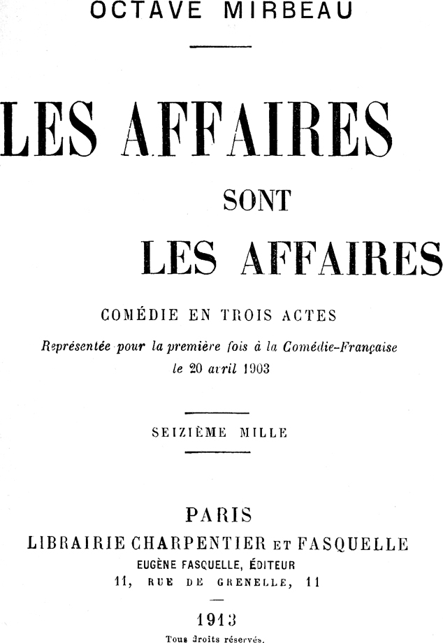 Business is business (1899) by Octave Mirbeau (1848-1917)